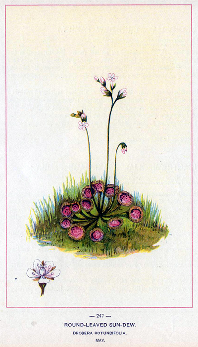 Drosera rotundifolia chromolithograph print from the 1894 edition of "Wild Flowers of America" prepared by Botanical Fine Art Weekly (Published by G.H. Buek & Co., NY.)